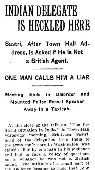 Clipping from The New York Times